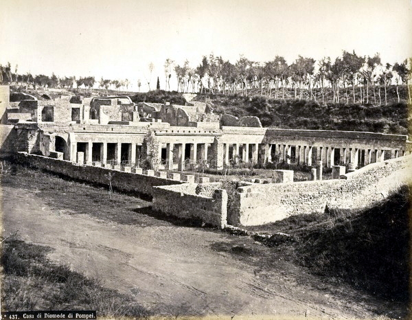 Roberto Rive (18?-1889), "House of Diomedes in Pompeii". Catalogue # 437.